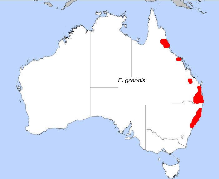 E. grandis